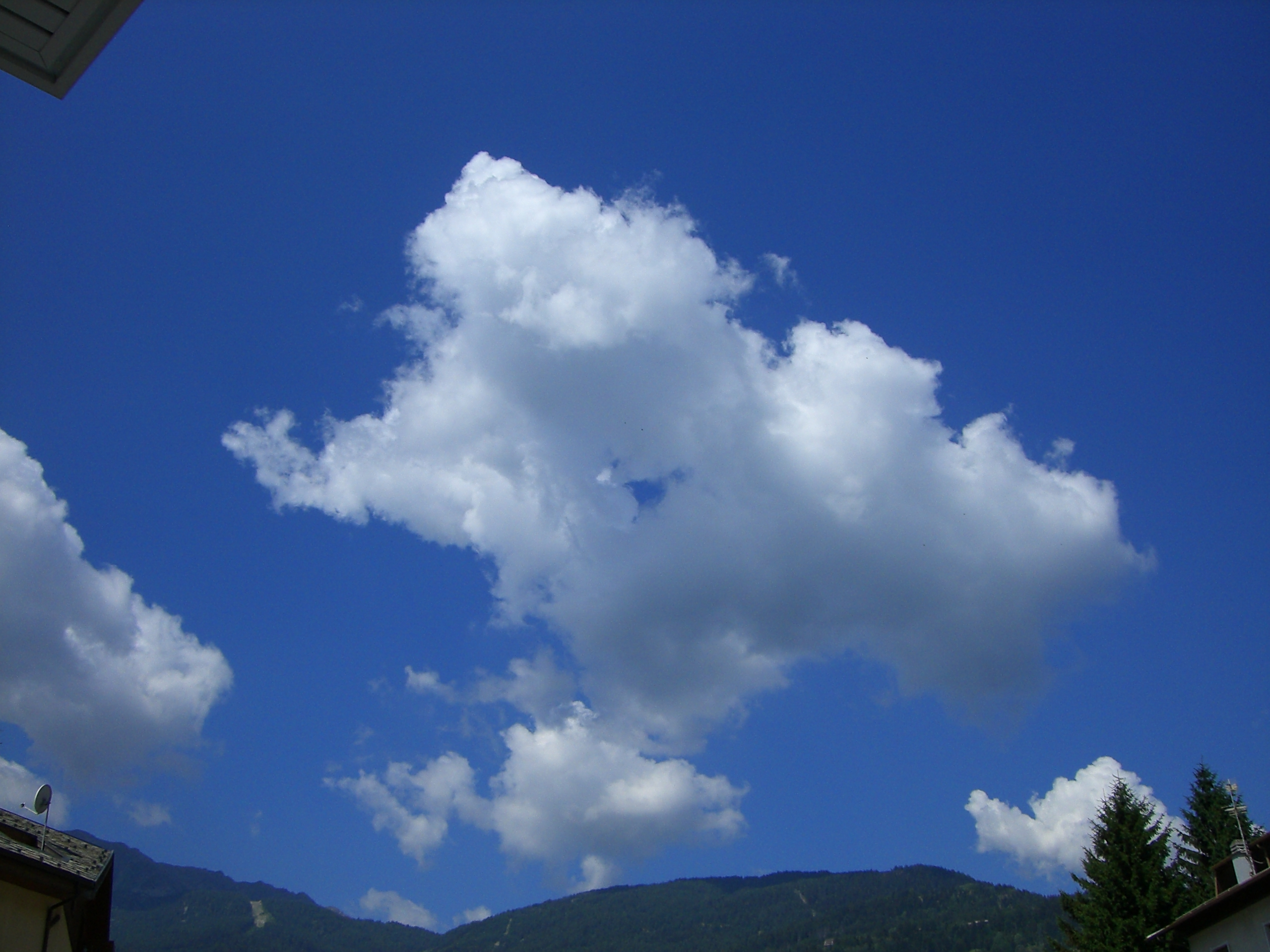 Pictures of landscapes taken during Helios89's trip to Valtellina